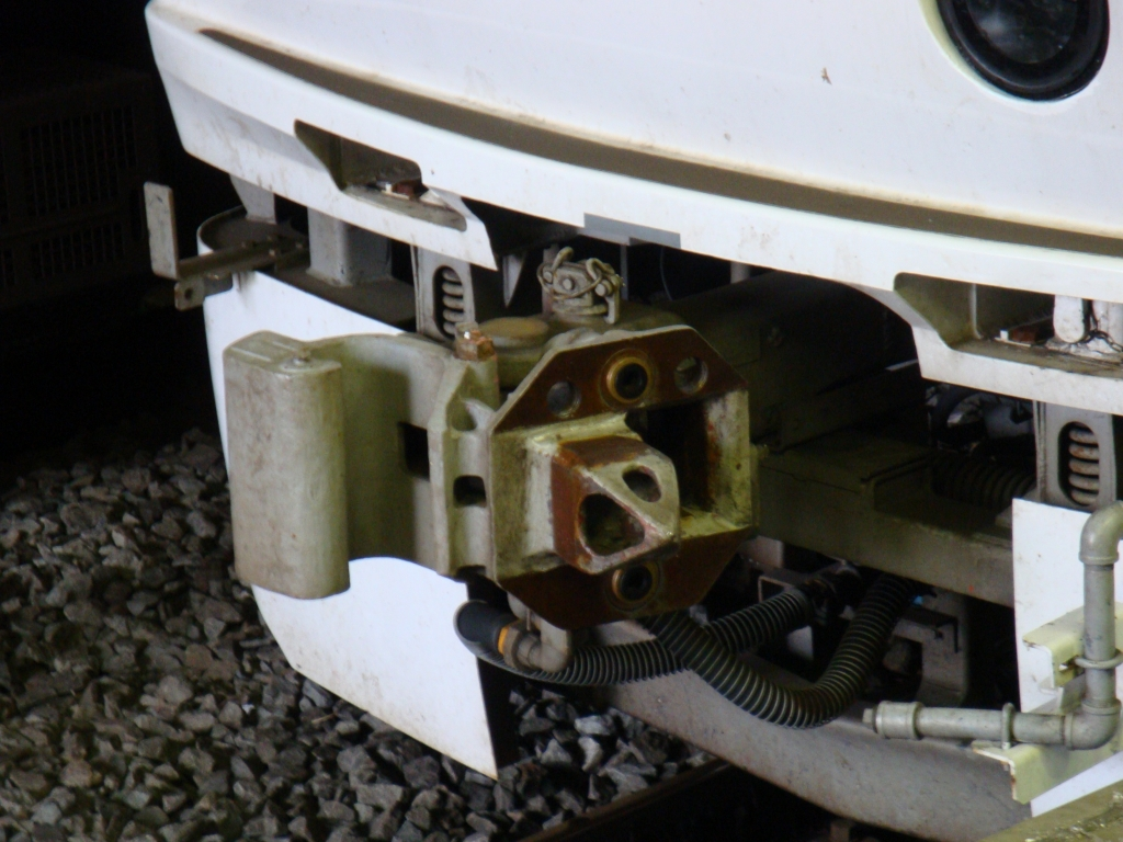 JR East E193 series DMU coupler